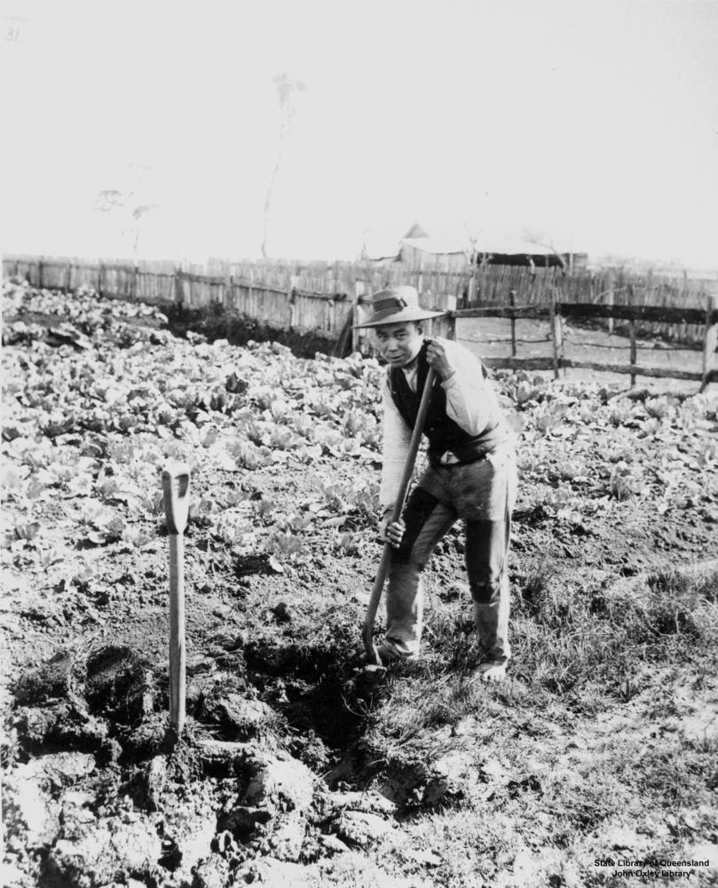 A Chinese man gardening, around 1893.Image number 121707, from the John Oxley Library, State Library of Queensland.